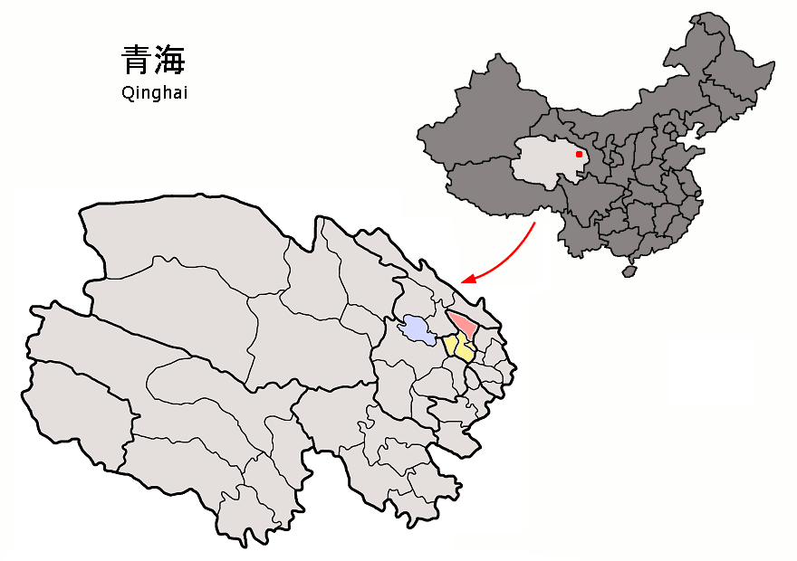 Location of Datong County (pink) and Xining Prefecture (yellow) within Qinghai province of China Map drawn in september 2007 using various sources, mainly : Qinghai province administrative regions GIS data: 1:1M, County level, 1990 Qinghai Counties map from "Plateau Perspectives" (the limits of some county-level subdivisions may not be accurate)